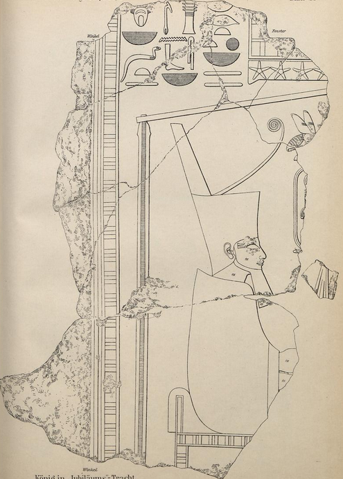 Drawing by Ludwig Borchardt of a relief showing pharaoh Sahure, 2nd ruler of the 5th Dynasty of Egypt, enthroned and weraing the tight tunic of the Sed festival. The relief originates from his mortuary temple.